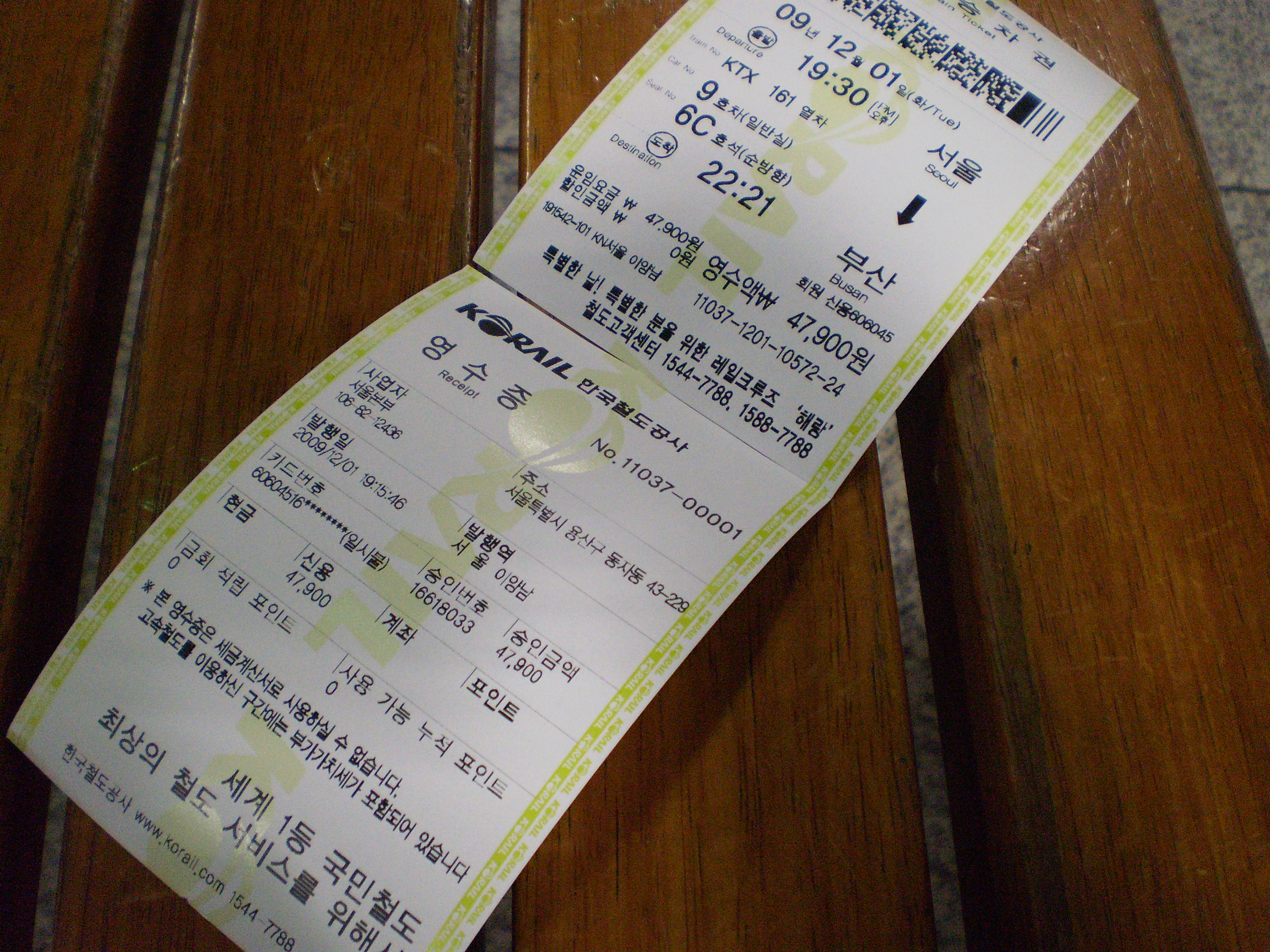 new version of KTX Ticket since Dec, 2009